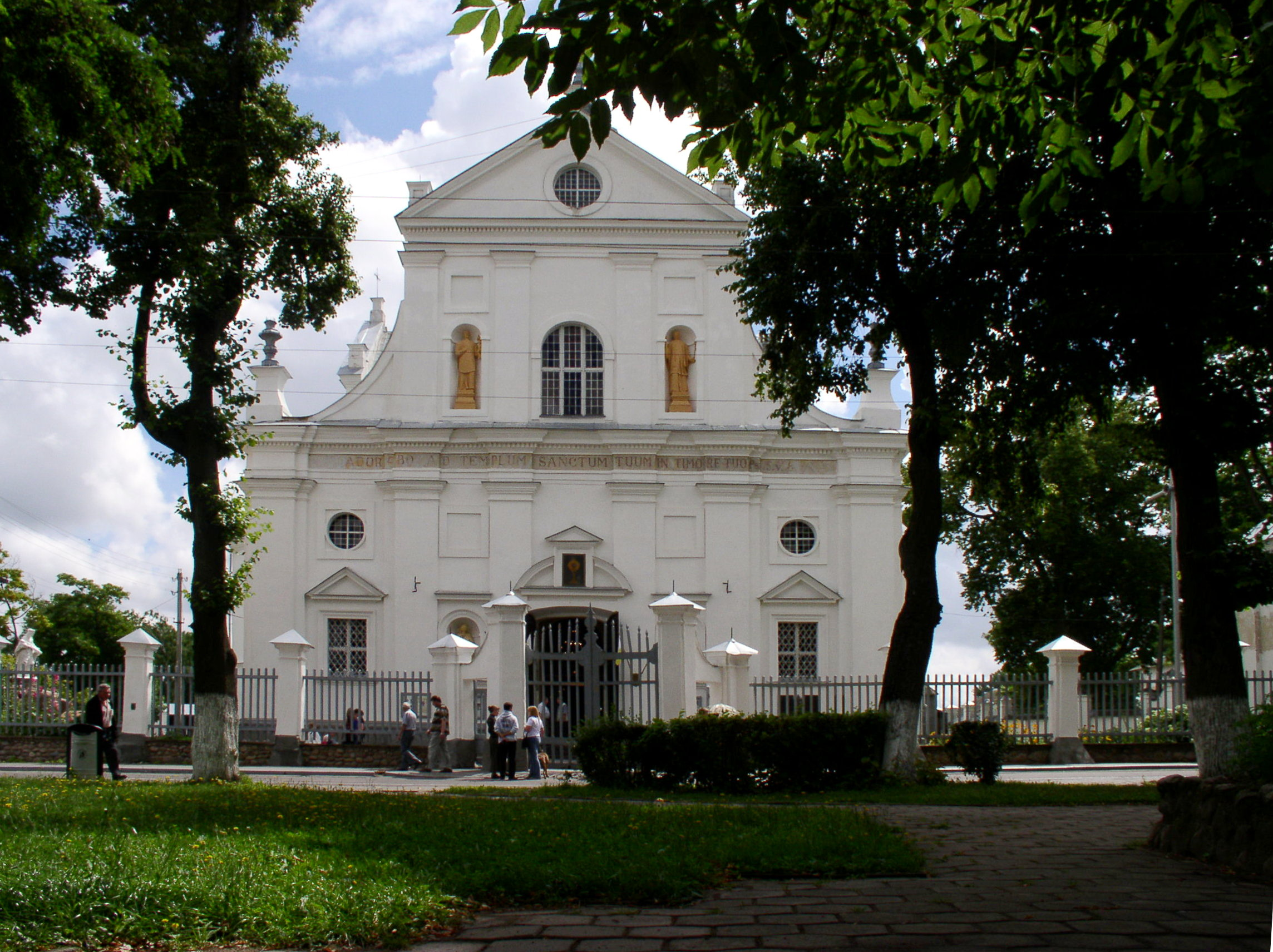 Church of the Corpus Christi. Niasvizh, Belarus.